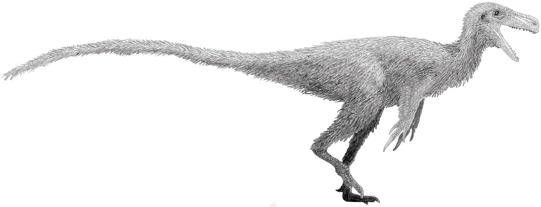 Life reconstruction of Stokesosaurus clevelandi. Proportions align with Hartman.